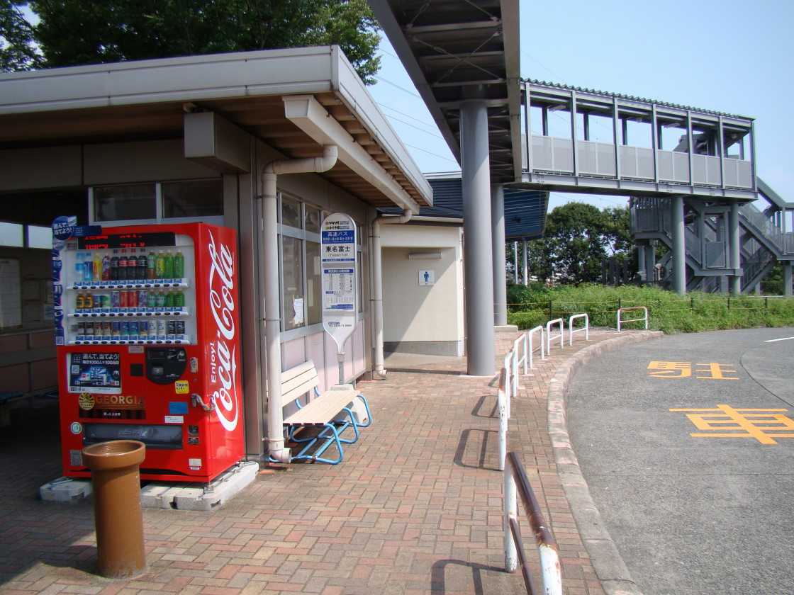 tomeifuji busstop